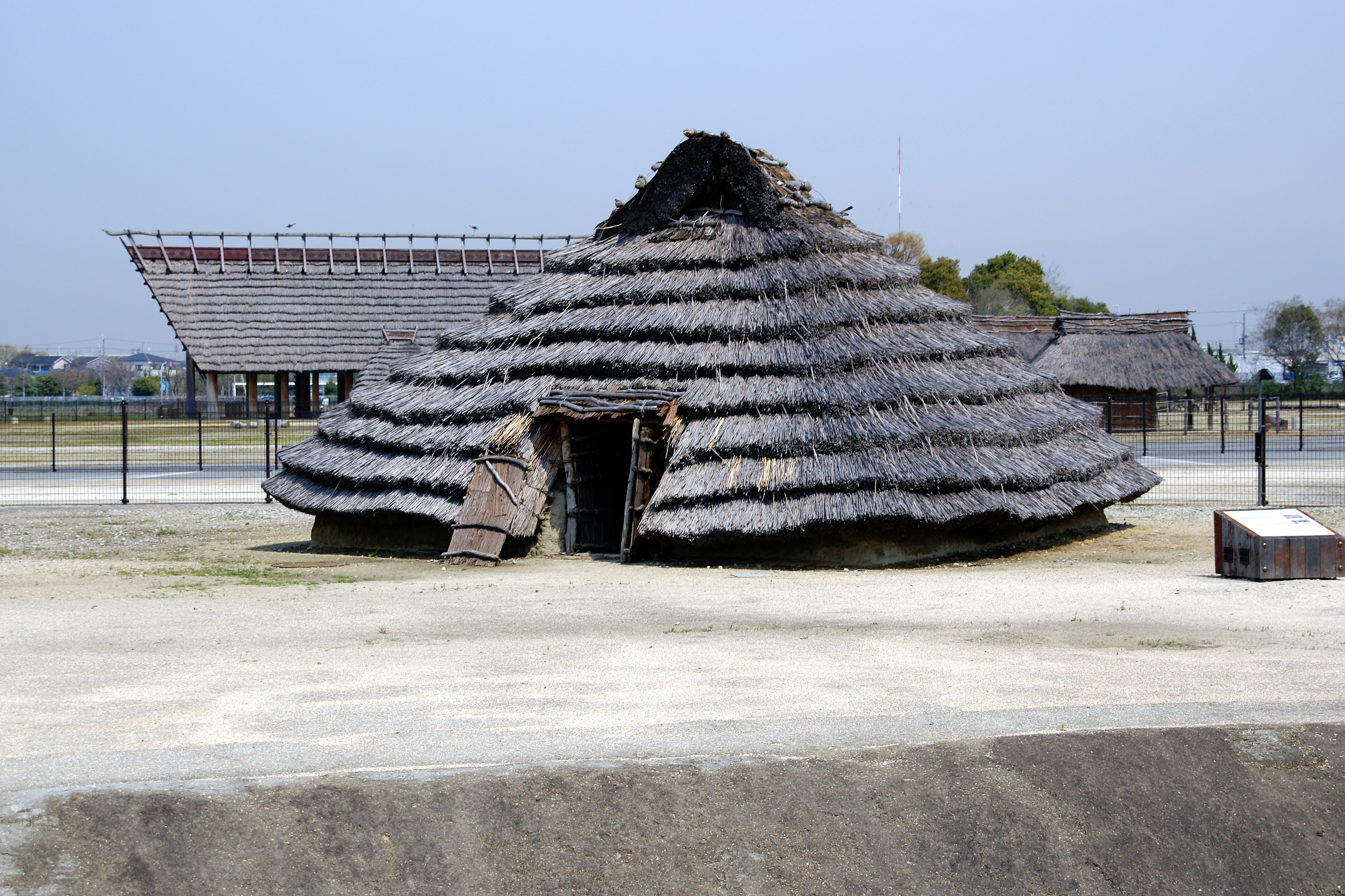 Ikegami-sone ruins in Izumi, Osaka prefecture, Japan